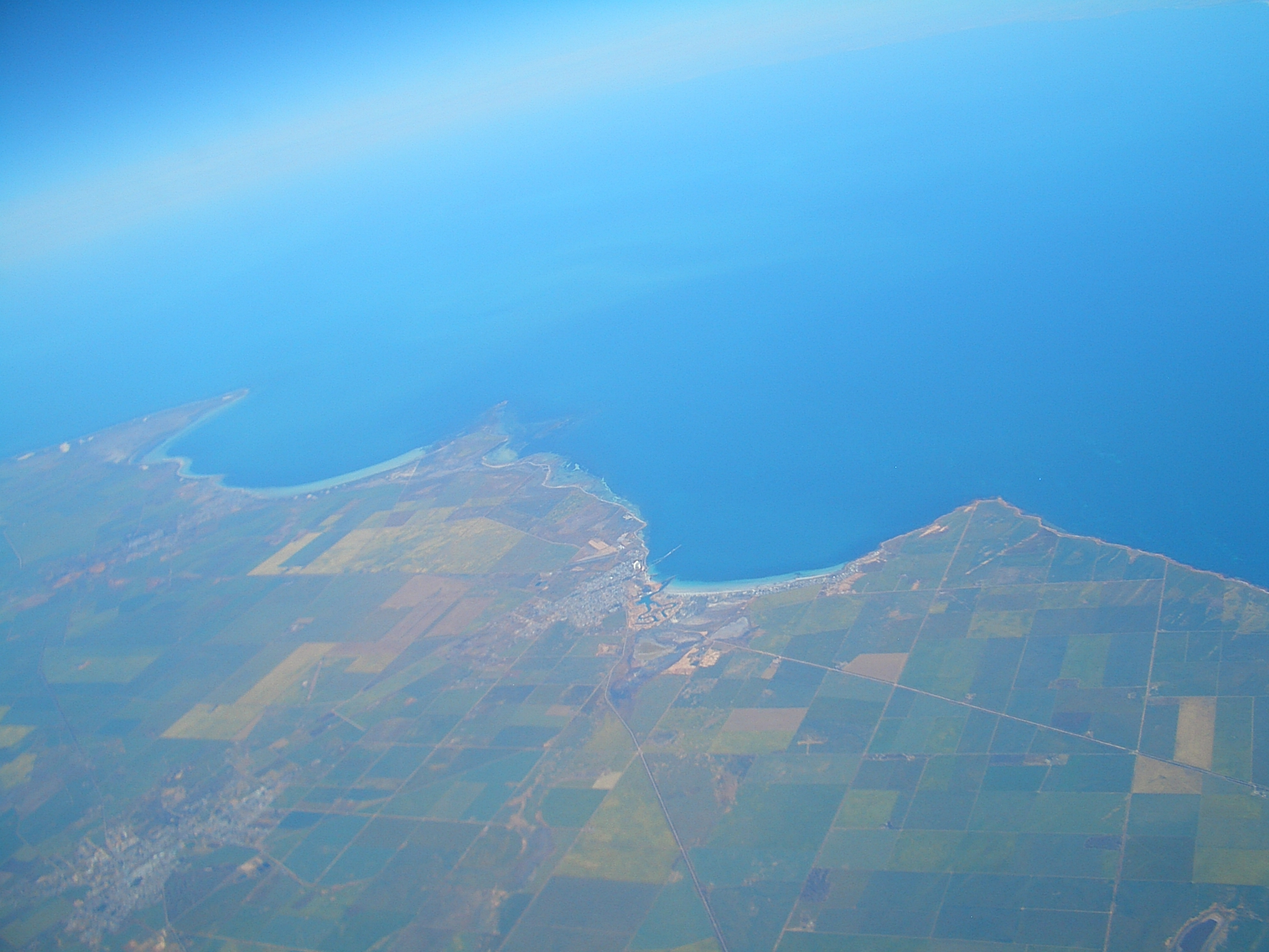 South Australia from the air (Darwin-Adelaide flight. The Copper Triangle area (York peninsula), looking roughly west, toward Spencer Gulf. Kadina is in the lower left corner, Wallaroo is roughly in the center, and Moonta, center left.